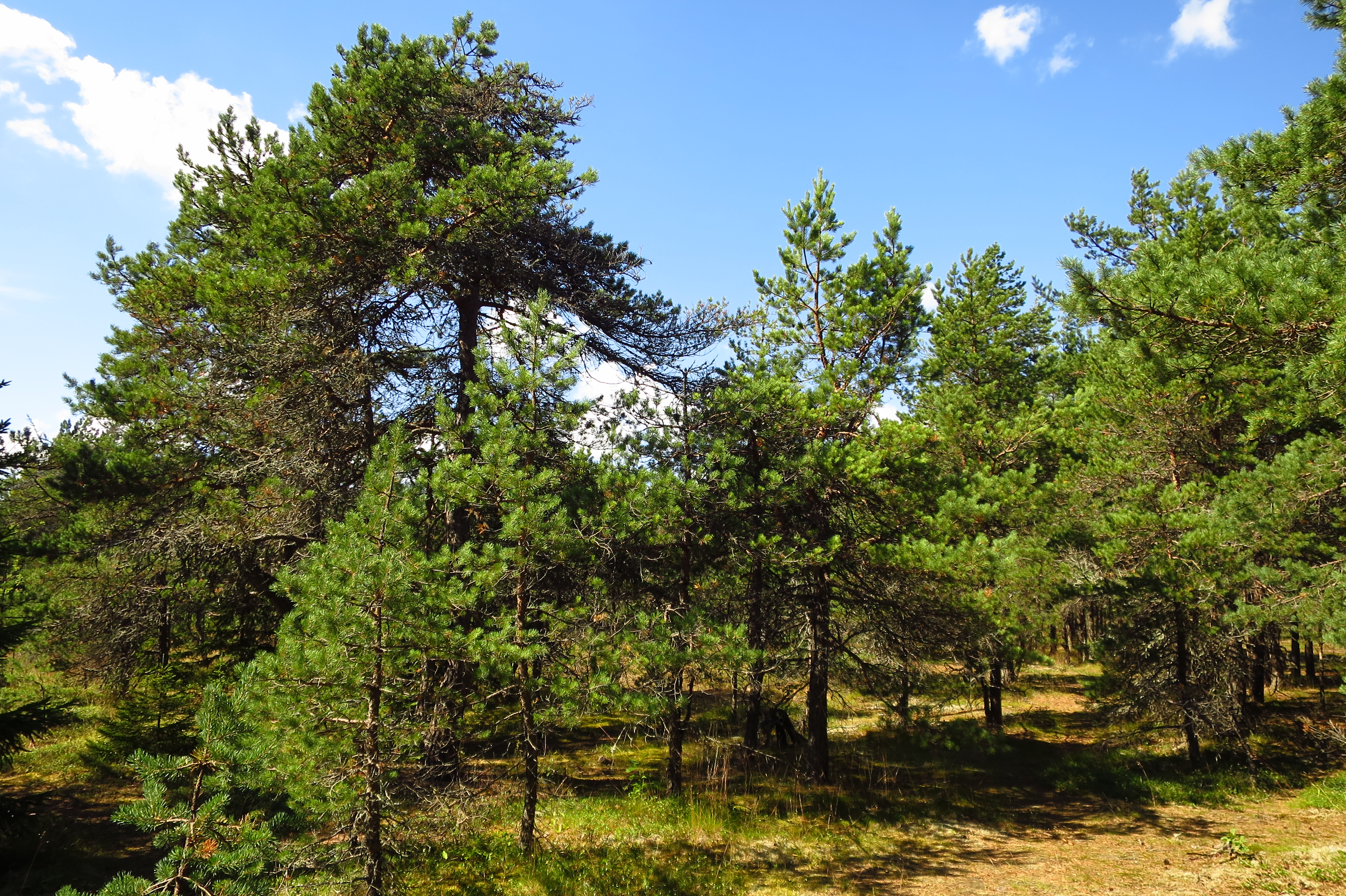 Männik Liiva-Putla looduskaitsealal